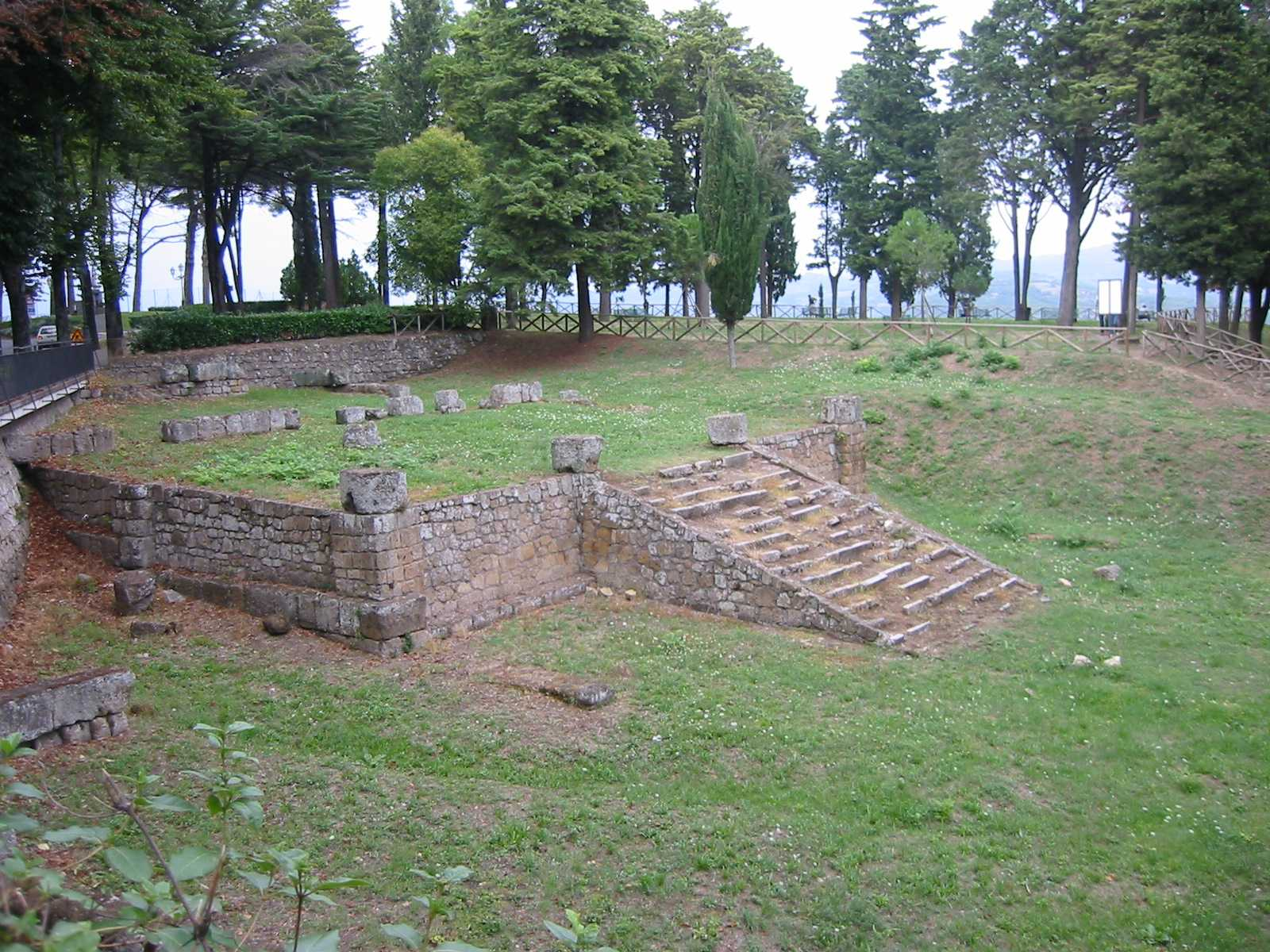 Orvieto, Italy: Etruscan temple of Belvedere